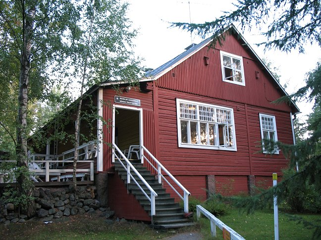 Maunula outdoor hut with cafe, in Maunulanpuisto district and in Keskuspuisto Park in Helsinki, Finland.